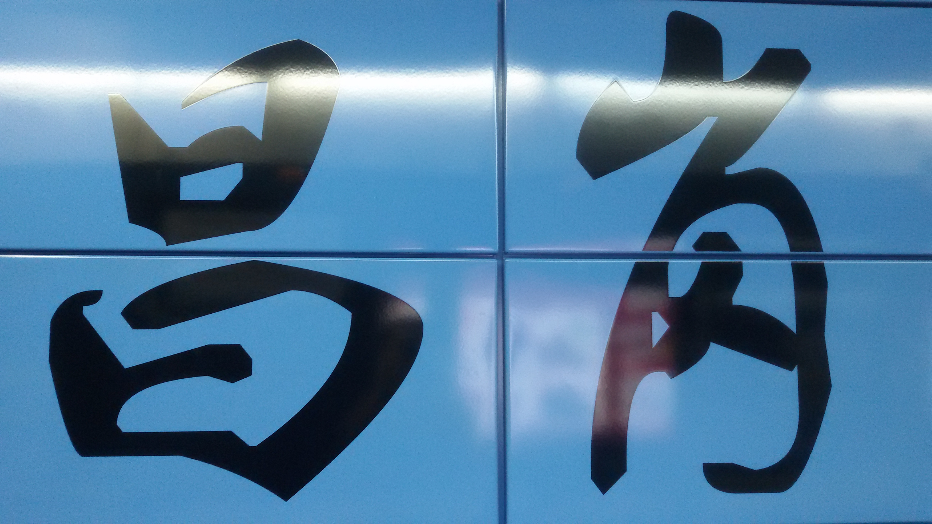 BIG TEXT for Changgang Station at Line 2 in Guangzhou Metro.